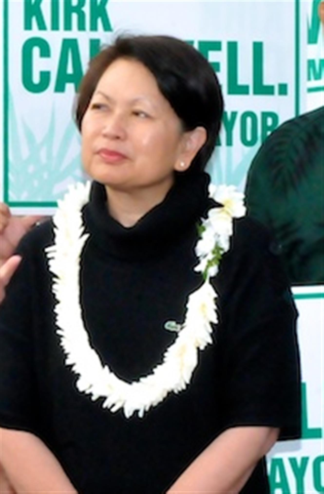 Photo from Kirk Caldwell's announcement for his candidacy for Mayor of Honolulu at the Kalihi Transit Center on January 12. 2012.